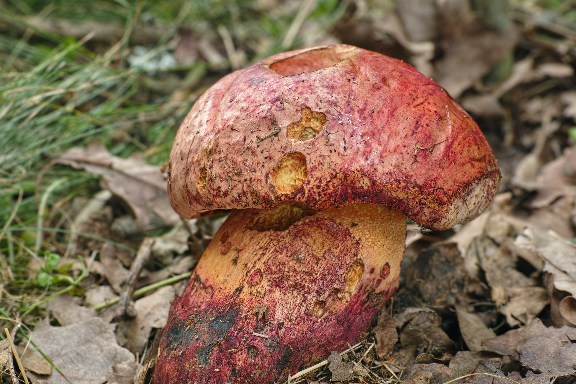 Boletus rhodopurpureus, Luční, Czech Republic